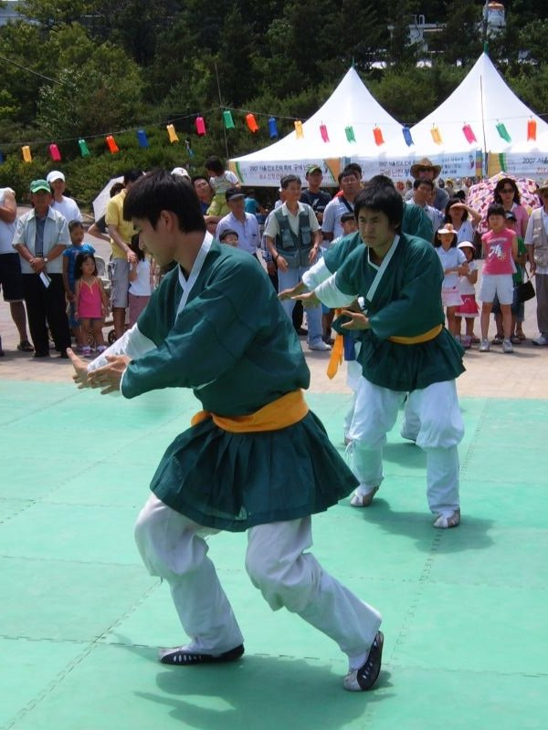 Martial artists practicing Taekkyeon (택견) for Hi! Seoul Festival on April 28th 2007